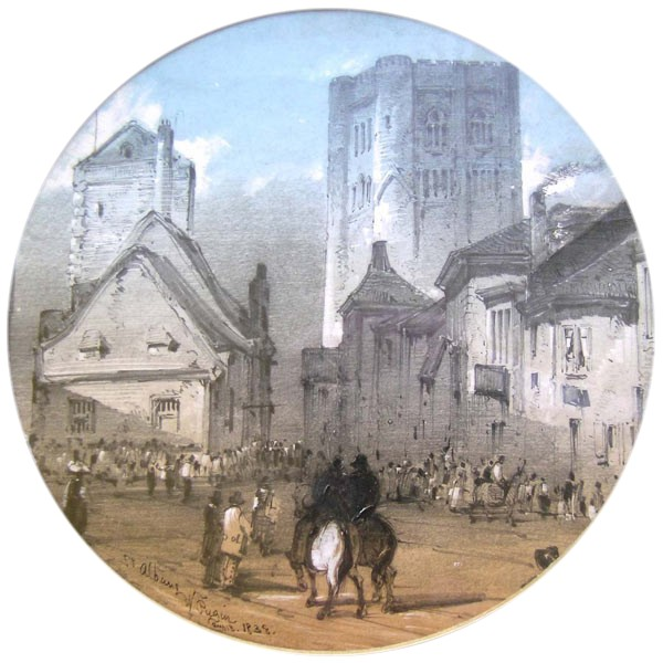 Sketch of St Albans market square in Hertfordshire